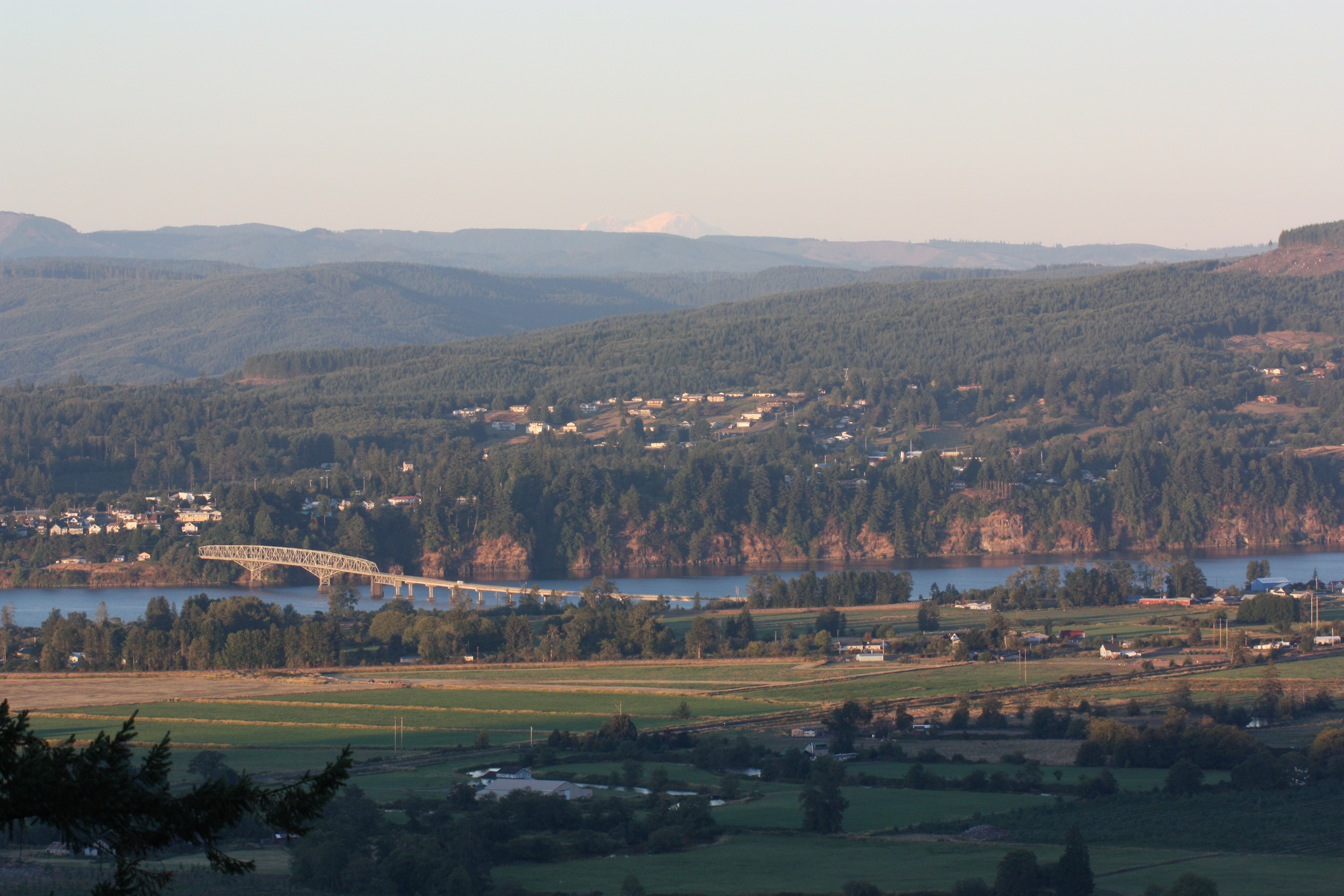 Julia Butler Hansen Bridge across Cathlamet Channel connecting Cathlamet, Washington to Puget Island (foreground); Mount Rainier (center skyline)